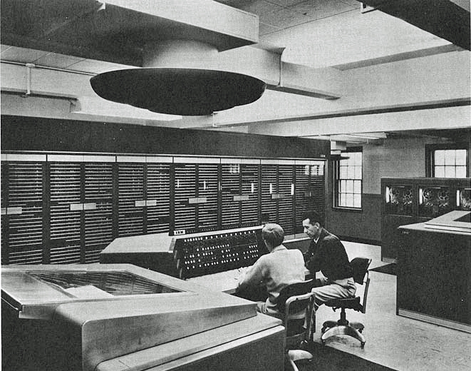 NORC (Naval Ordinance Research Computer) built by IBM for the U.S. Navy